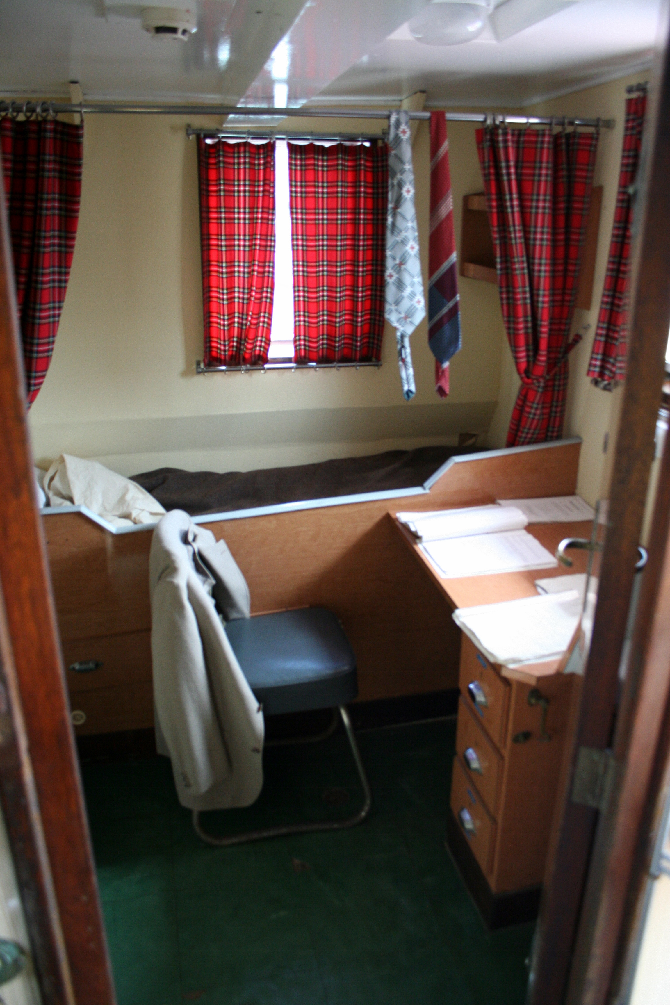 Captain's cabin on the trawler Angoumois